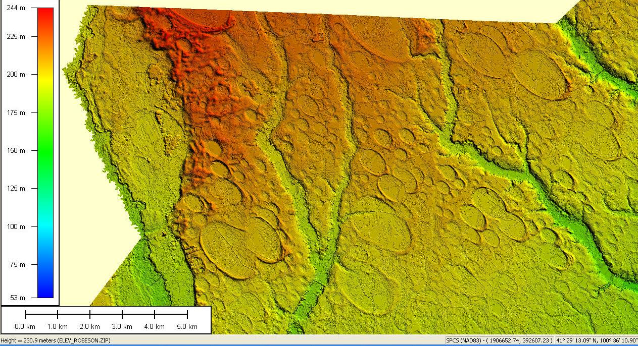 North Carolina Department of Transportation un-copyrighted LIDAR elevation data projected through purchased software